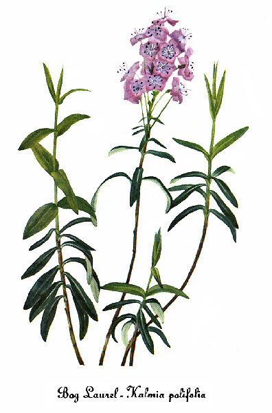 Watercolor painting of Kalmia_polifolia.